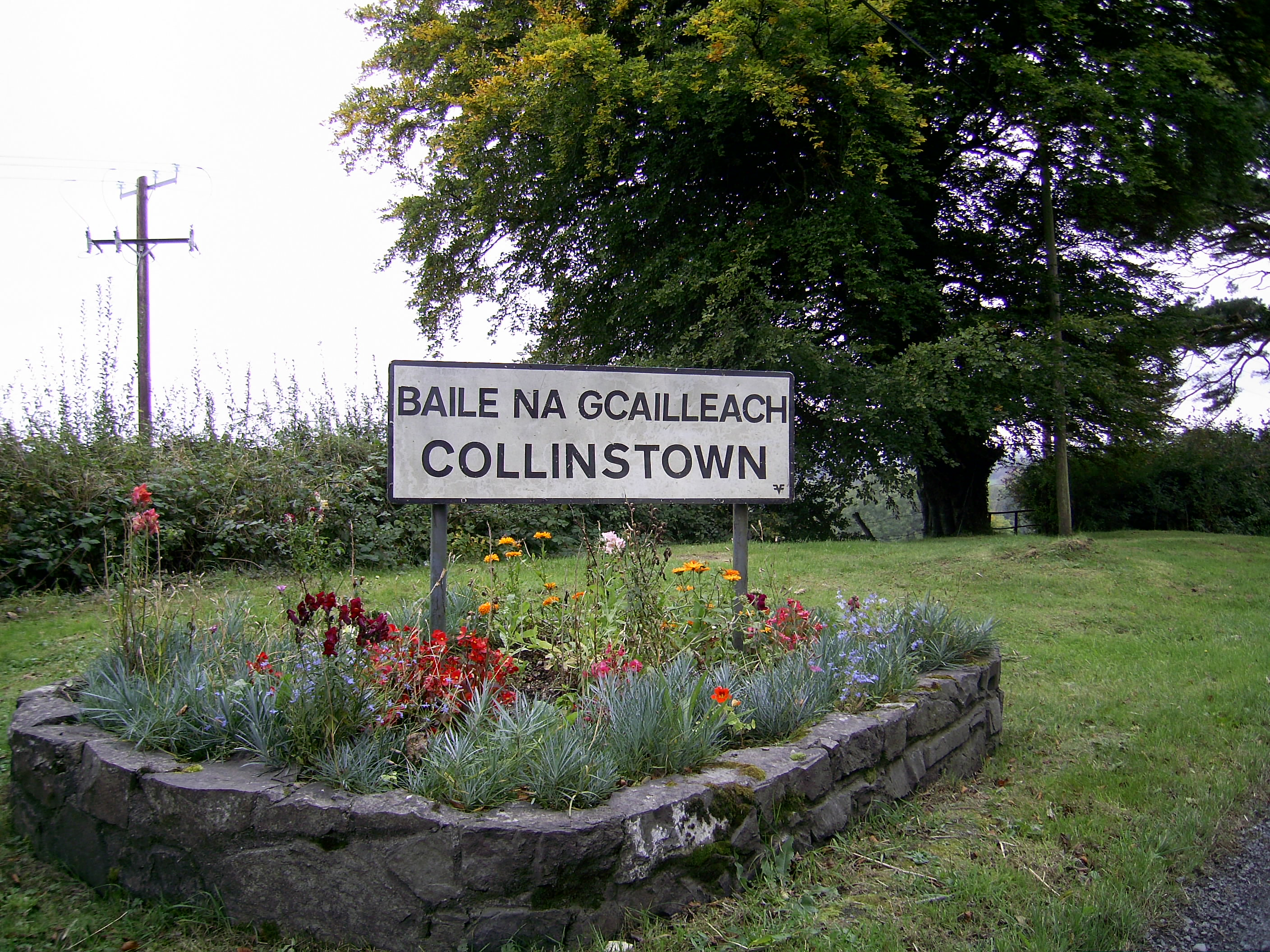 Panneau_de_Baile_na_gCailleach_Collinstown.JPG